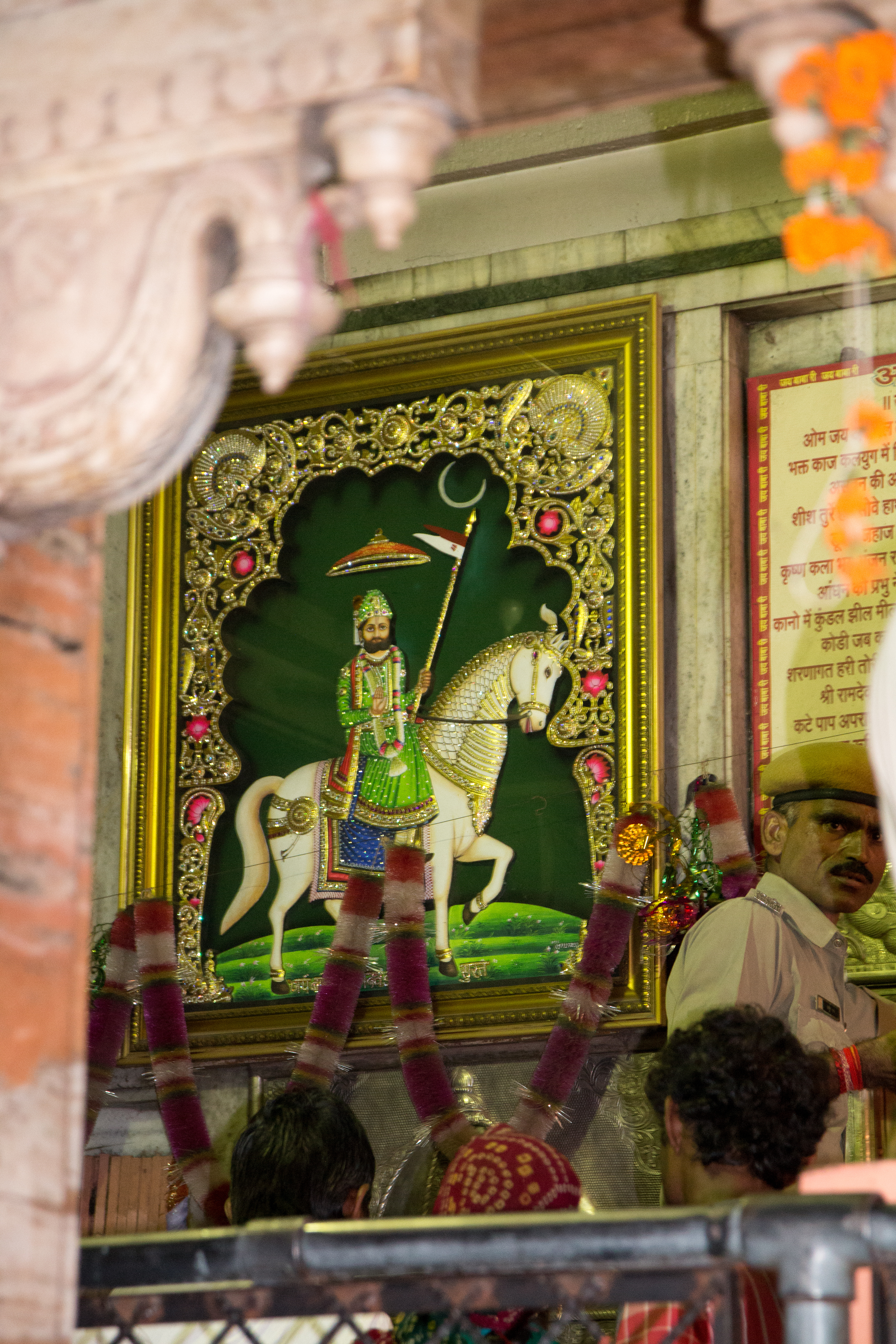 रामदेवजी): Baba Ramdevji (or Ramdeo Pir or Ramdev Pir or Ramsha Pir) is a reincarnation of Lord Krishna.